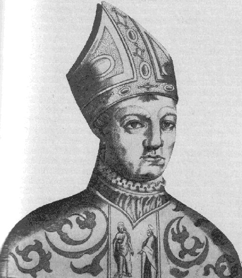 Antipope John XXIII from the German Wikipedia